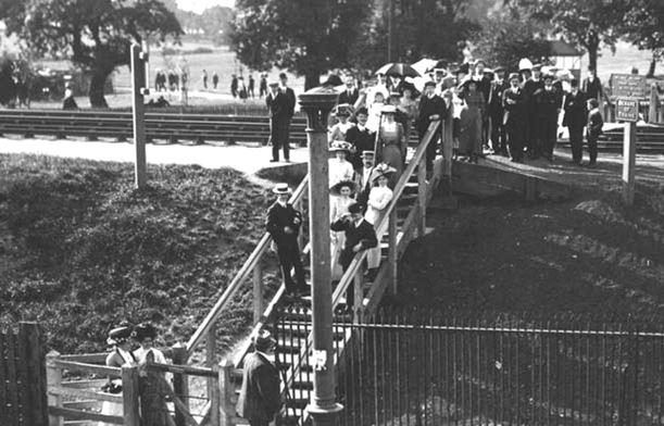 People crossing the Dudding Hill railway line, at the eastern end of Dudding Hill station, and the western end of Gladstone Park